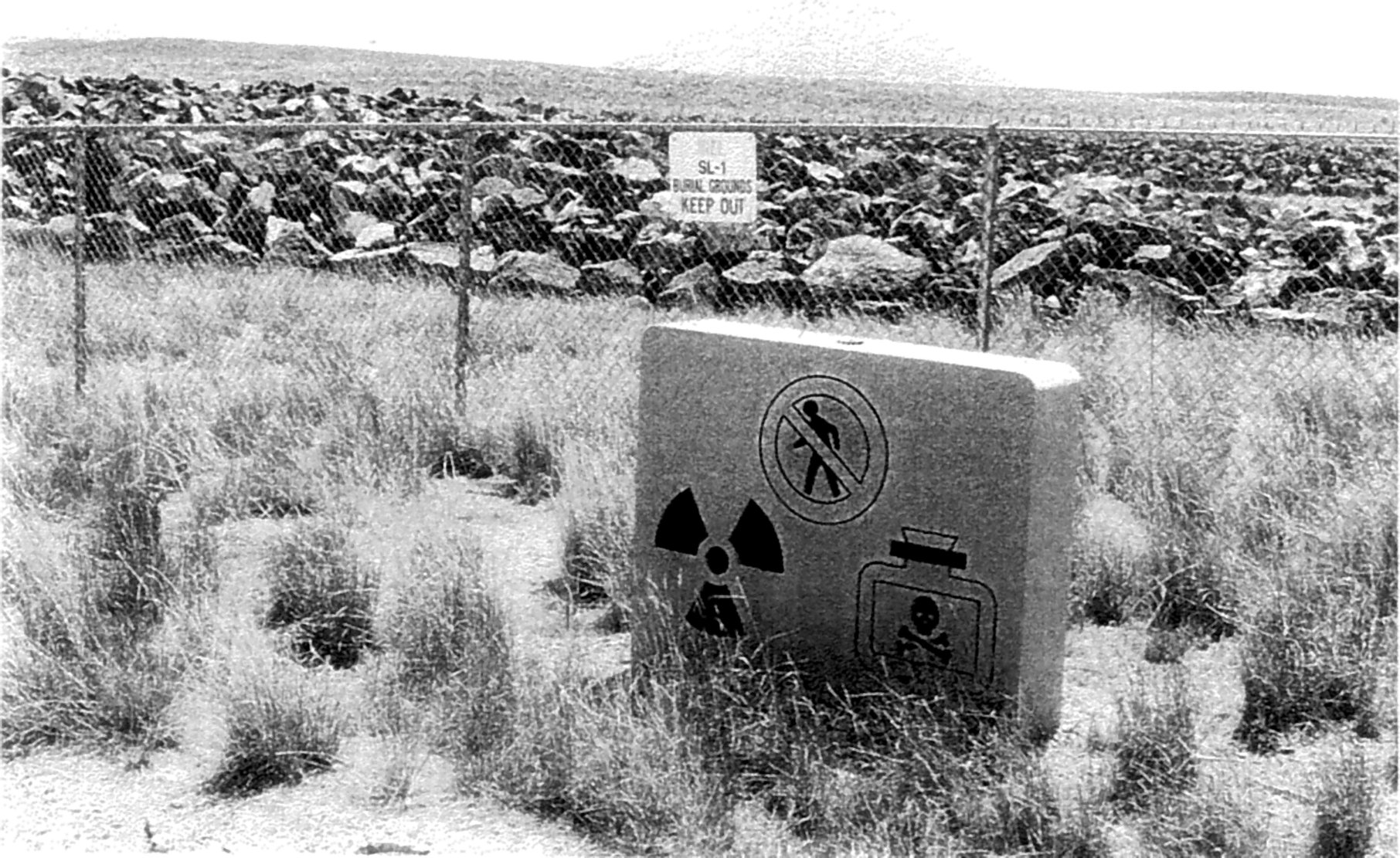 Burial Grounds of SL-1 reactor.The original caption reads: Attachment 2, Figure 2. ARA-06, SL-1 Burial Ground monument with burial ground cap and fence enclosure in background (Picture PD030195-06)